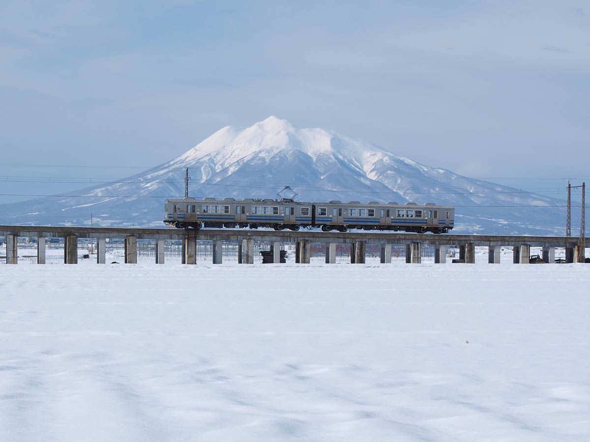 Series7000,Konan railway,Aomori,Japan.